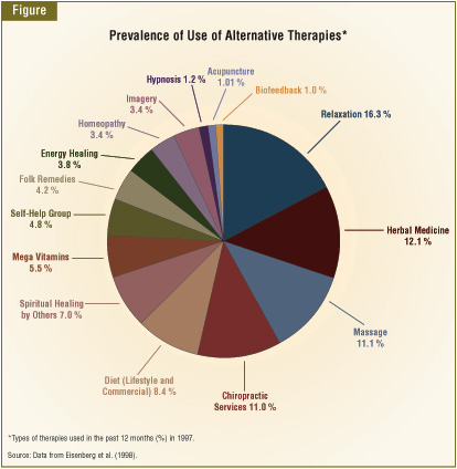 This graph outlines the common treatments available for those with PPD. This excludes antidepressants and psychotherapy.